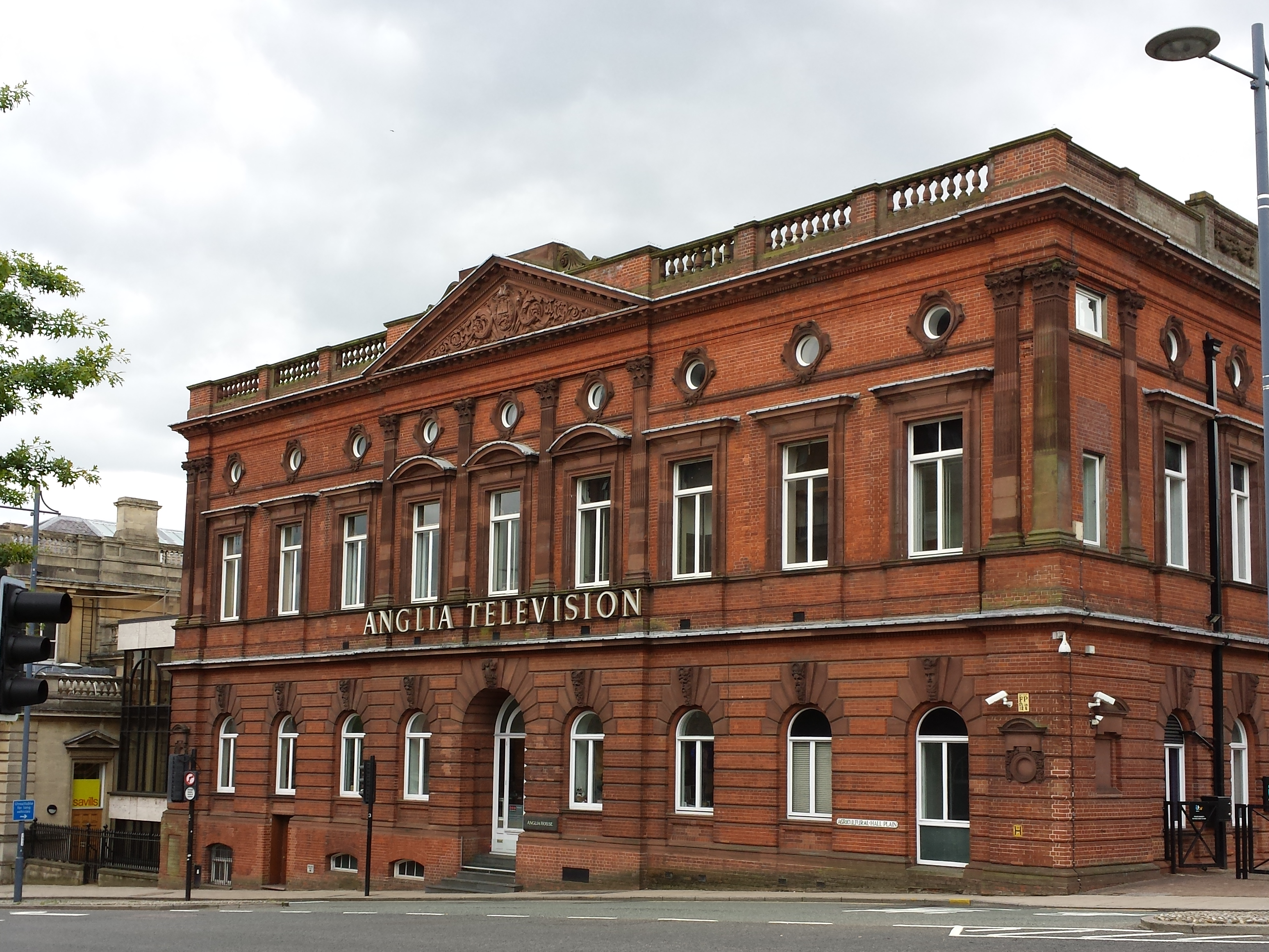 A Saturday in Norwich